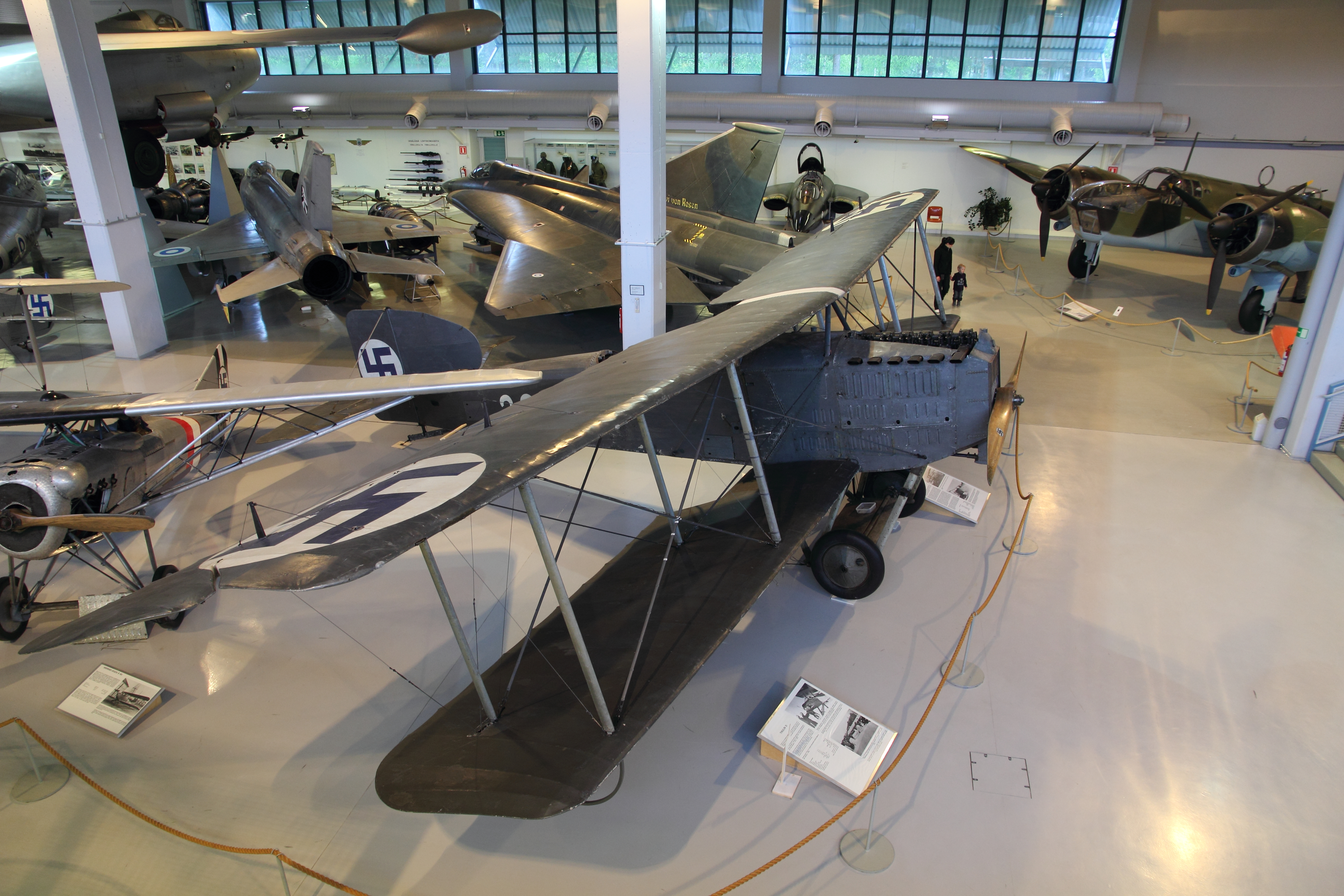 Breguet 14 A2 (registry 3C30, later BR-30) in the Aviation Museum of Central Finland.